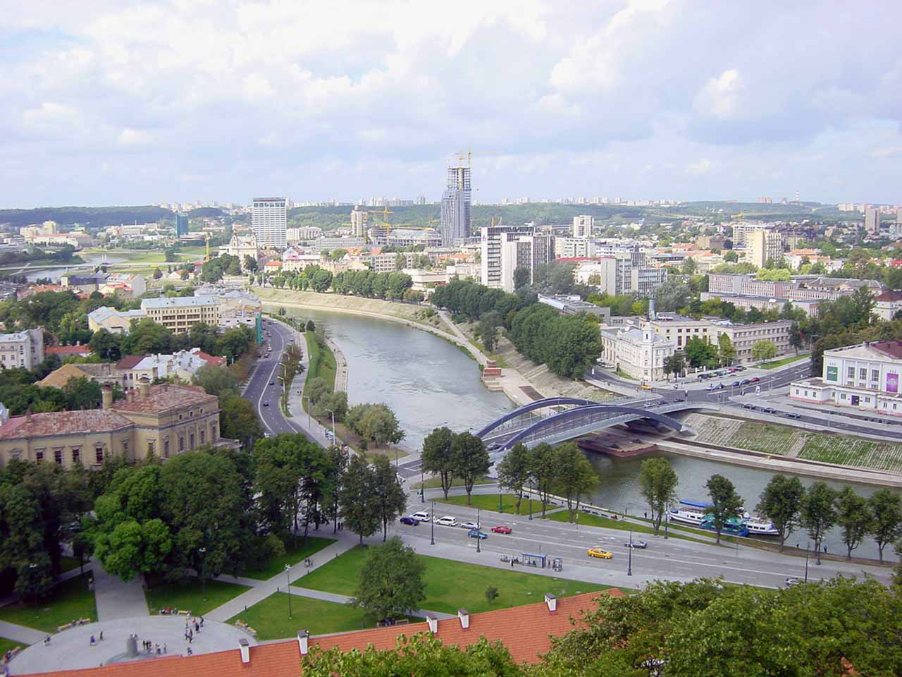 Vista of Vilnius Description